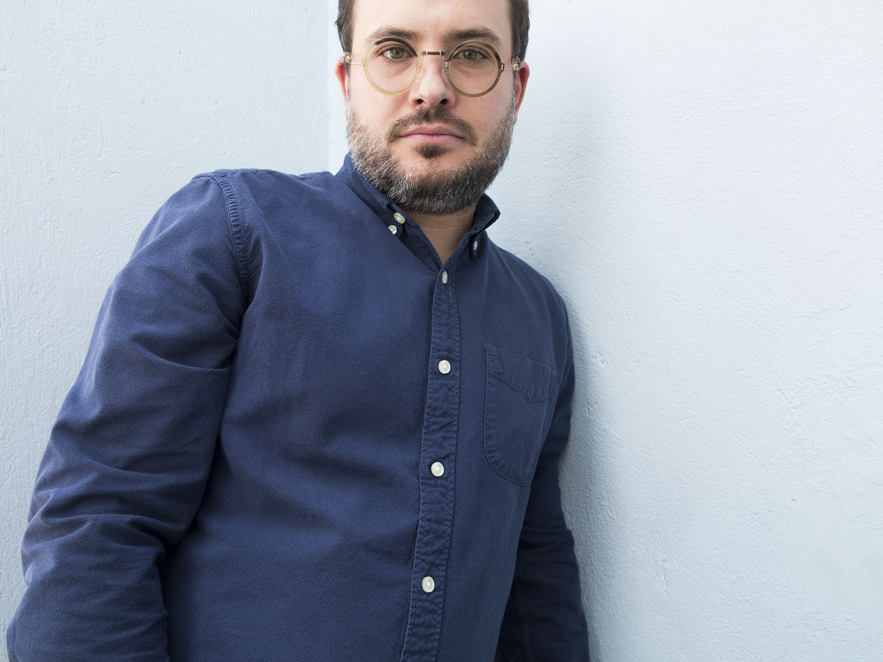 Selfie del artista mexicano Iñaki Bonillas.